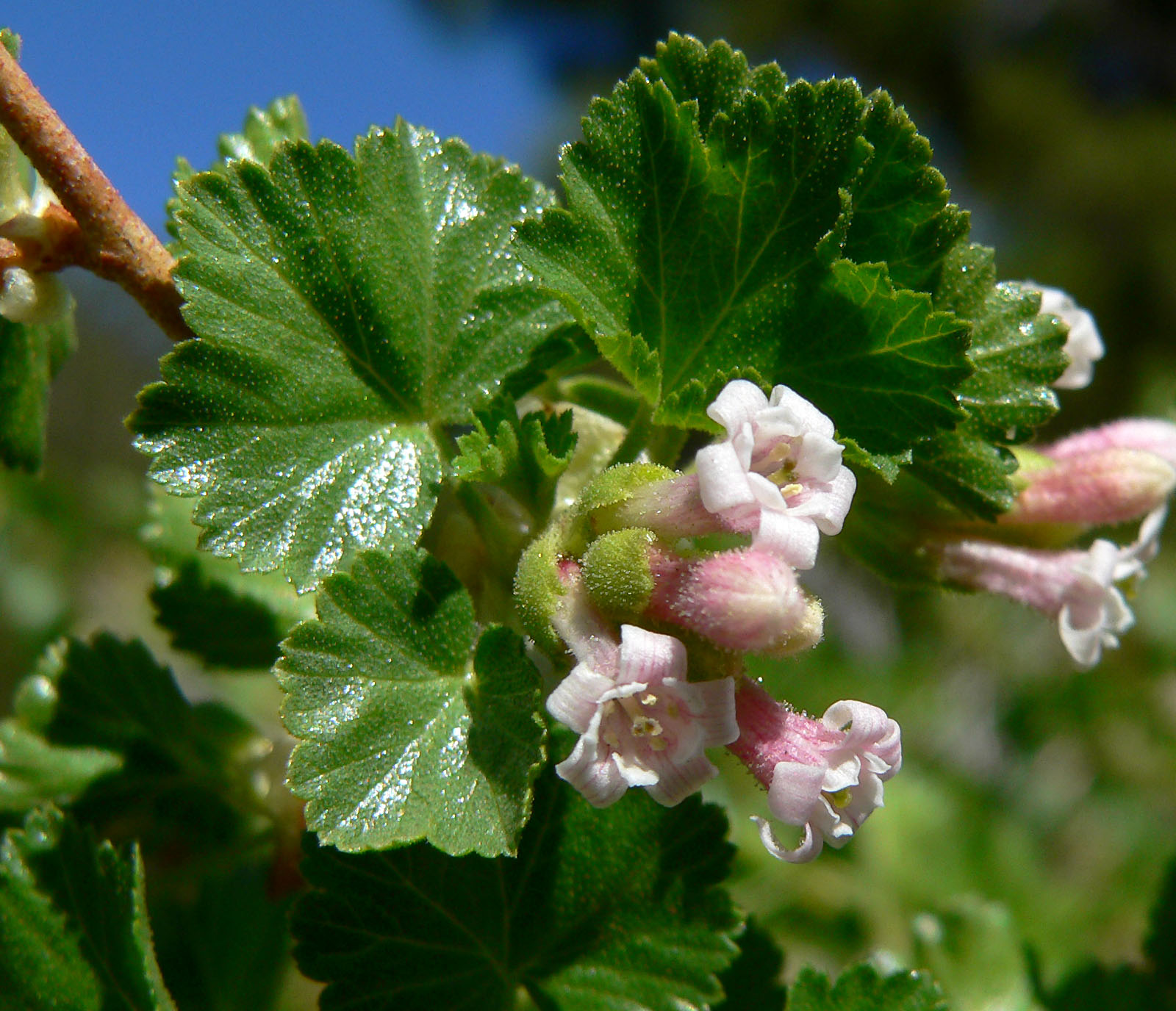 Ribes cereum var. cereum in upper Lee Canyon, Spring Mountains, southern Nevada